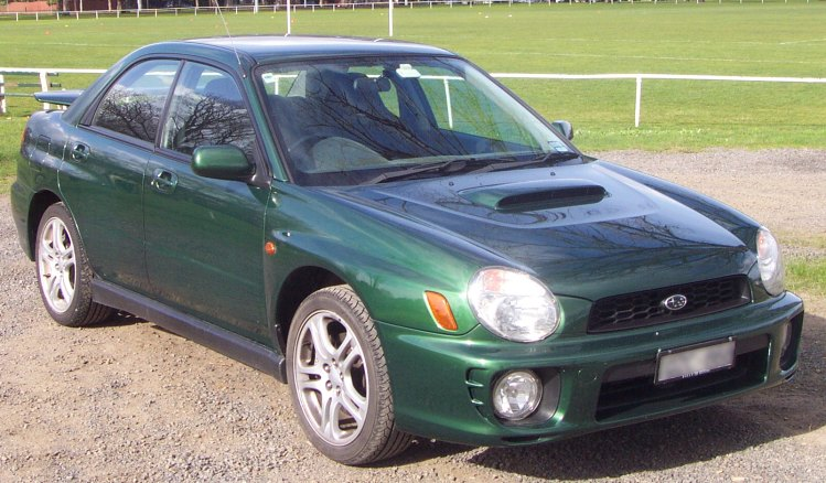 Subaru Impreza WRX 2001 model.